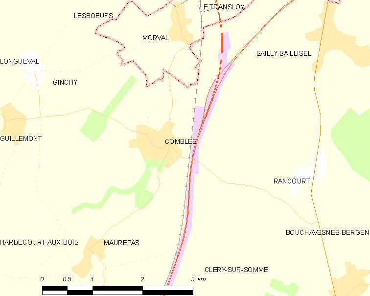 Map of French municipality Combles